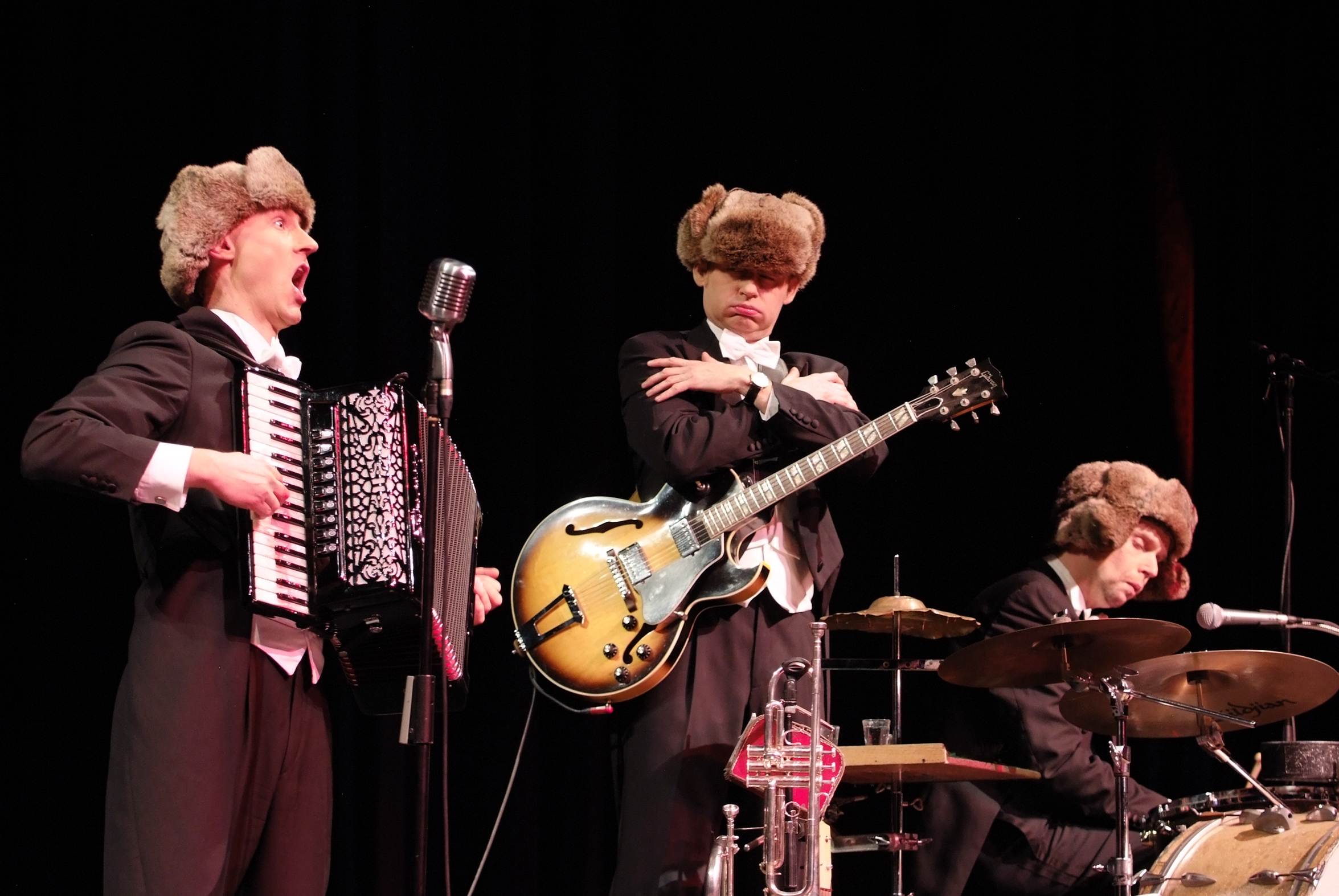 Musicians Bidla Buh, Hamburg